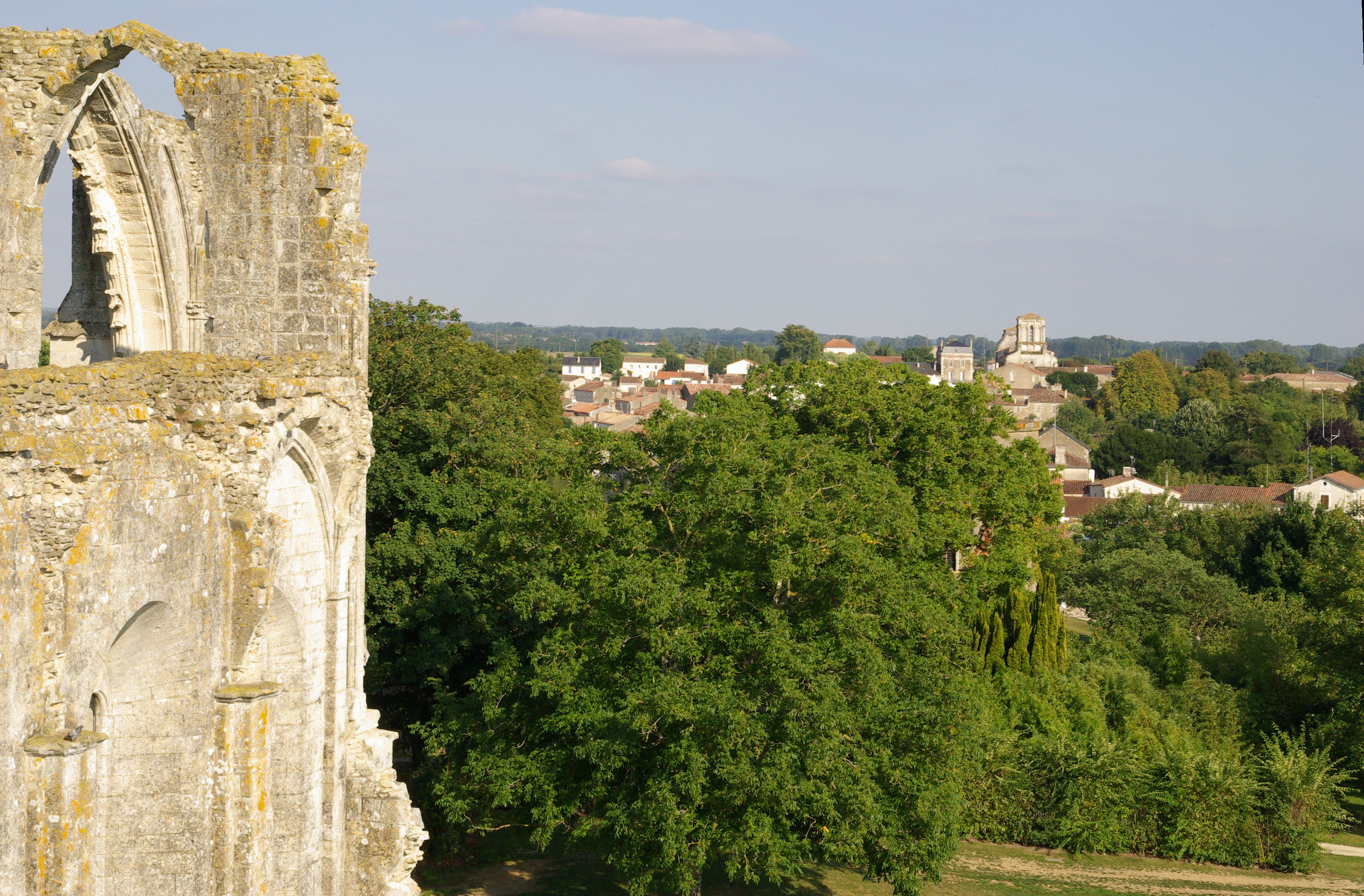 Part of view of Maillezais village in vendée